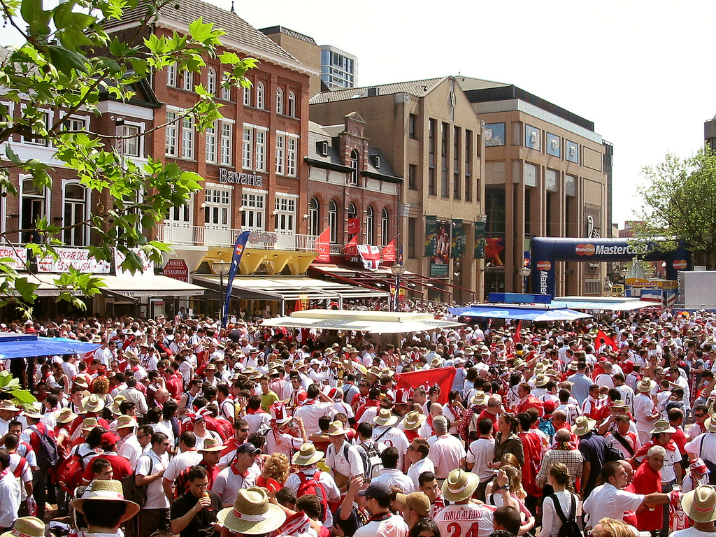 Eindhoven, Market place, May 10th, 2006. Before the UEFA cup final, fans of Sevilla (we here called them The Barbers) gathered here and were being entertained before going to the Philips-Stadium where the match was played.